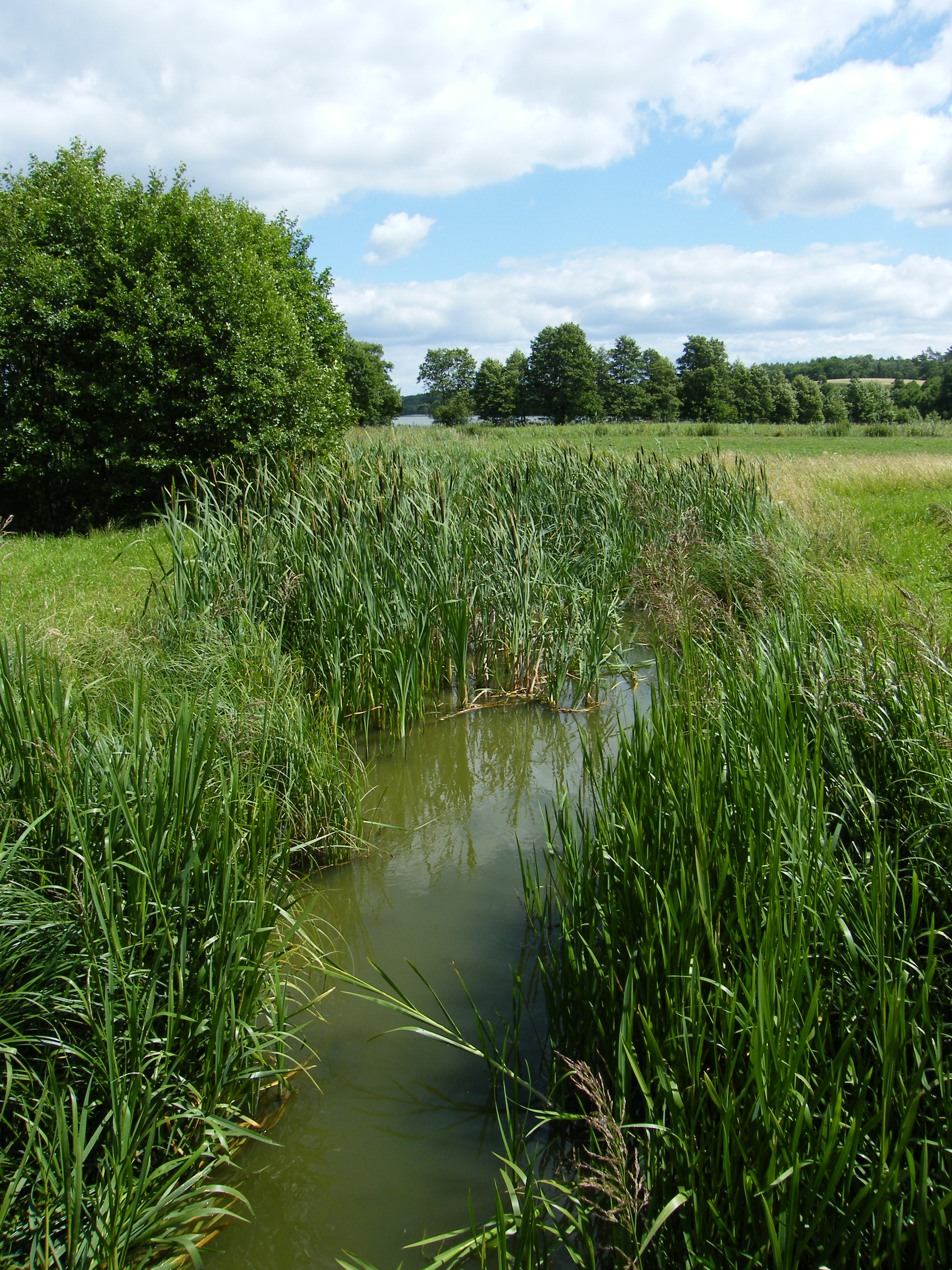 Nature reserve Brzeg Jeziora Cheb